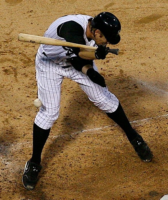 Joe Crede being hit by a pitch on July 5, 2006. Cropped from original image found here: [1] Photo by Albert Yau 22:38, 5 December 2006 . . Mattingly23 . . 249×313 (26 KB)